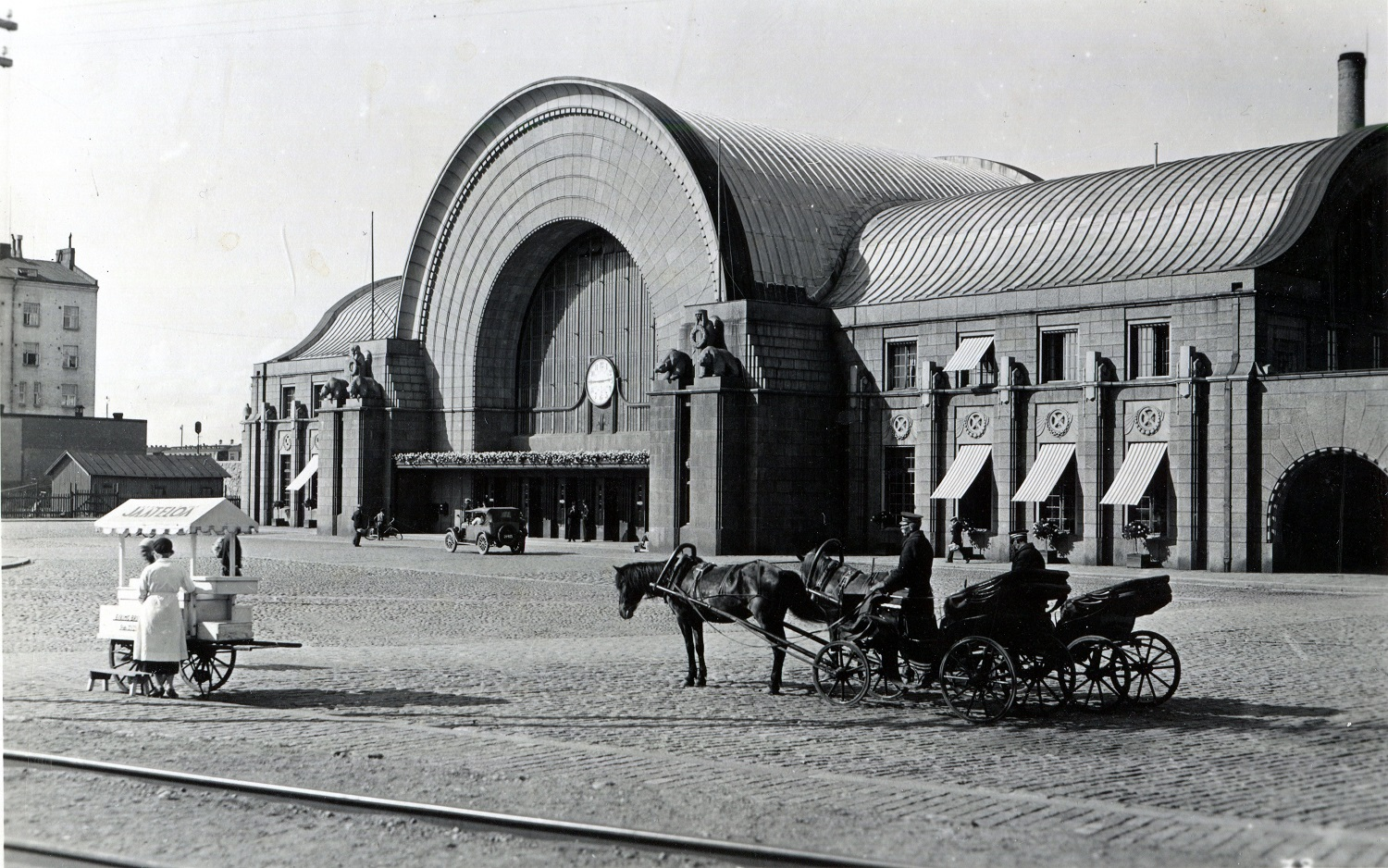 Vyborg Railway Station in Finland, late 1920s/early 1930s.